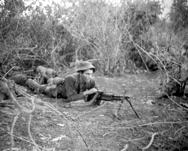 Australian soldier mans machine gun position in Vietnam.